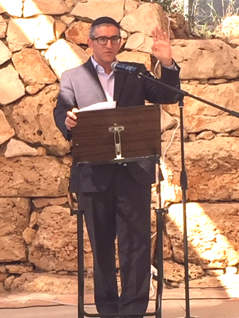 Rabbi Pesach Wolicki at Day to Praise 2016